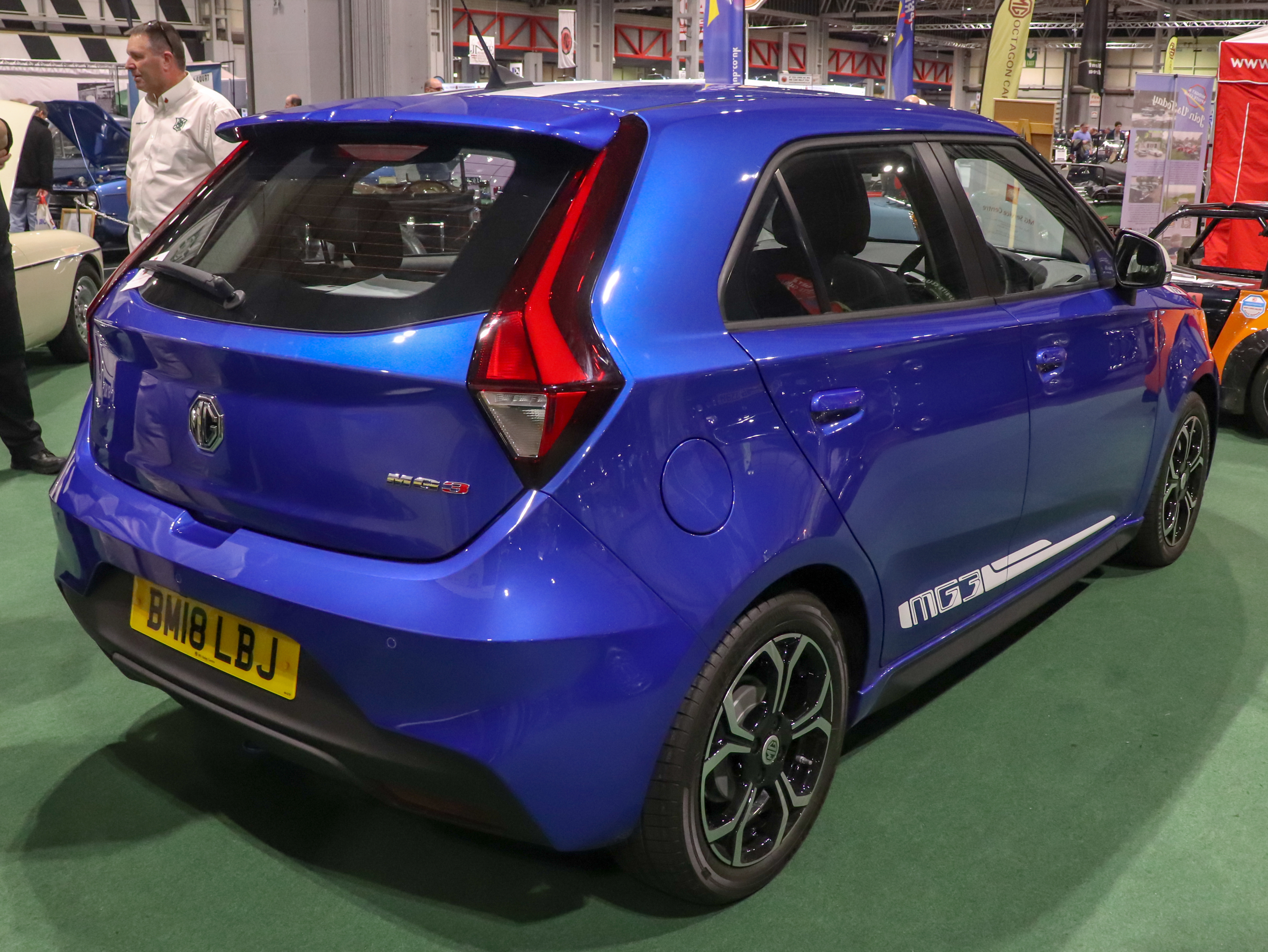 2018 MG 3 facelift 1.5 Rear Taken at the NEC Classic Motor Show 2018